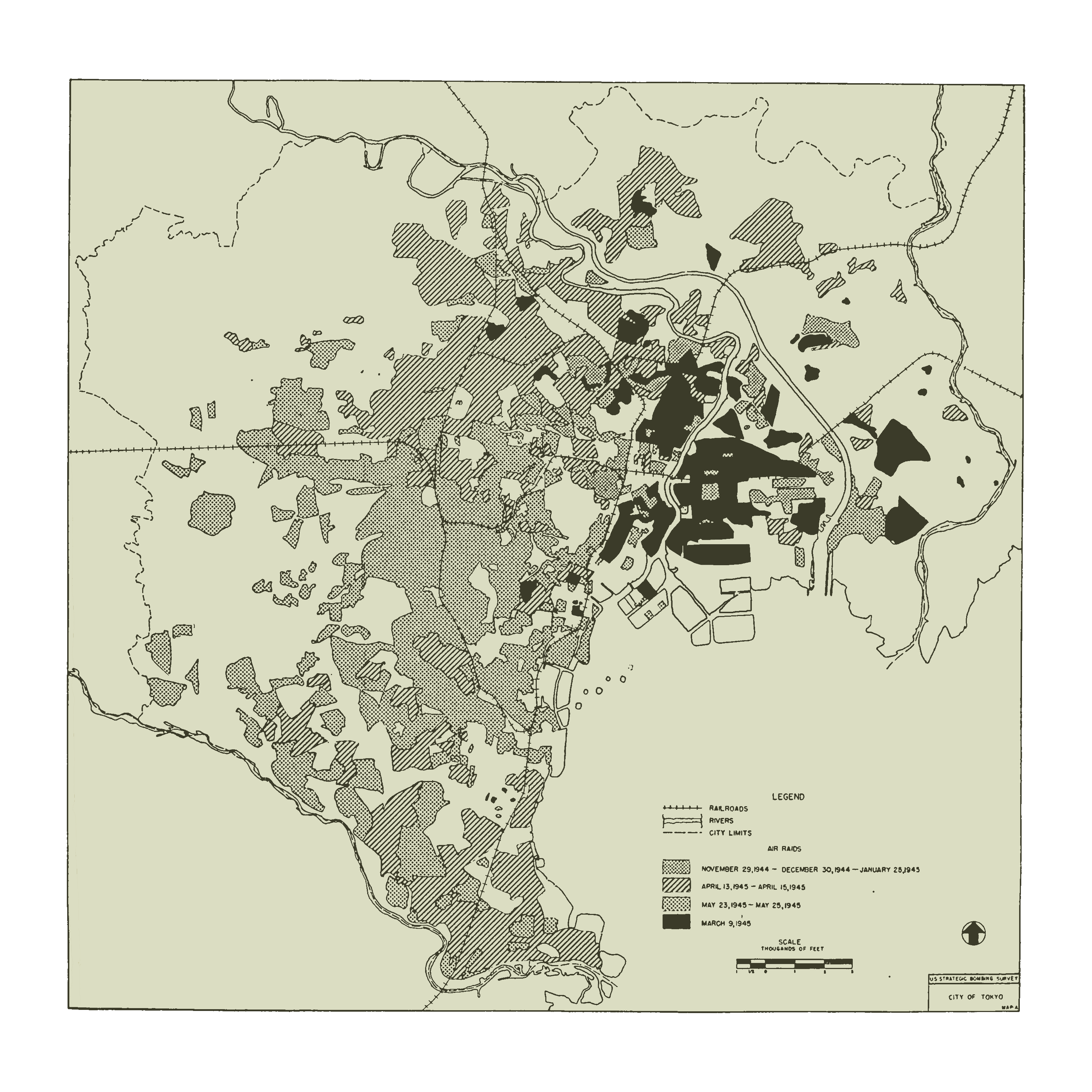 "Effects of air attack on urban complex Tokyo-Kawasaki-Yokohama". Map of the U.S. strategic bombing campaign on Tokyo from November 29, 1944 - May 25, 1945 Image extracted from PDF of original document (p. 57) and saved as PNG, margins set to white and extended to 3072 pixels x 3072 pixels.